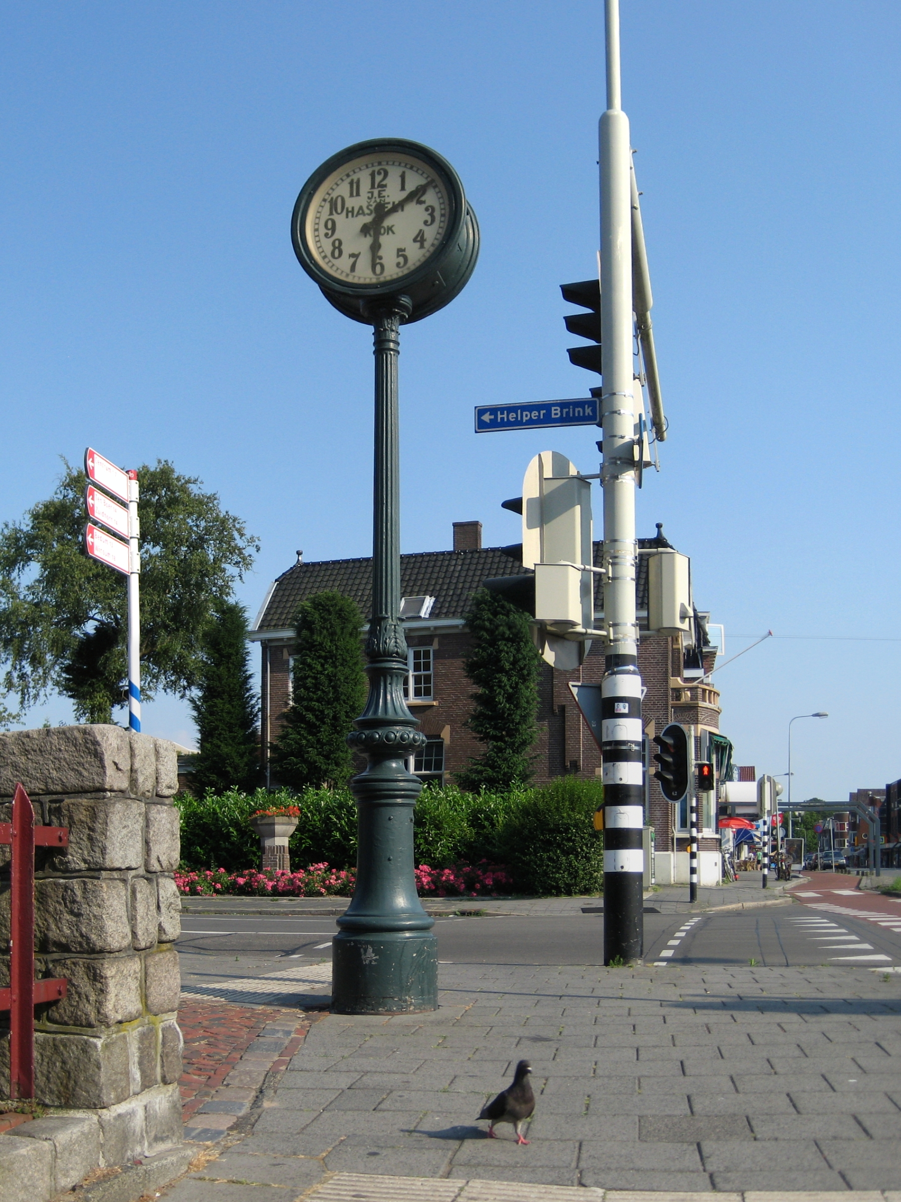 Street clock (1923) in the Dutch city of Groningen.